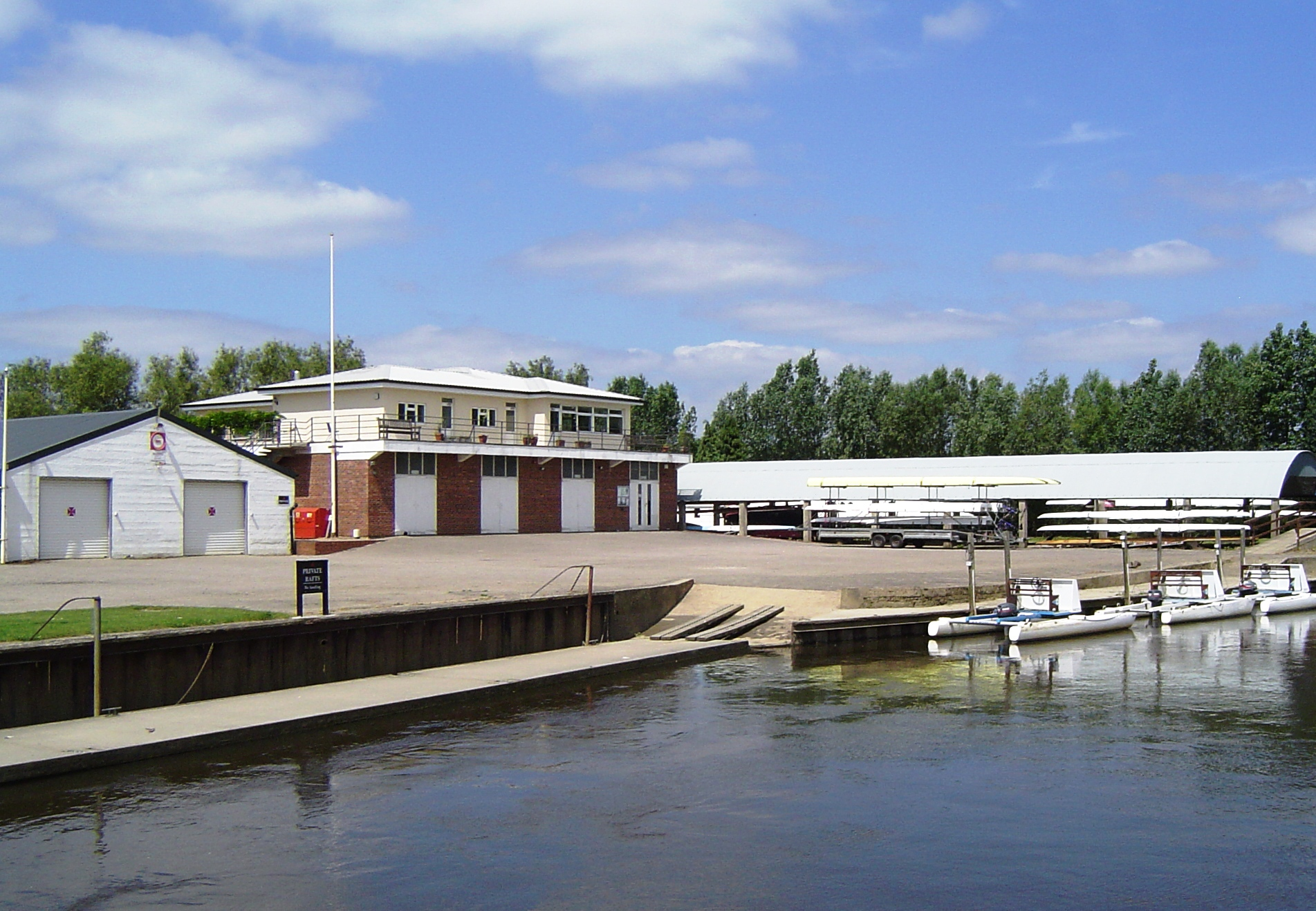 Radley COllege Boathouse